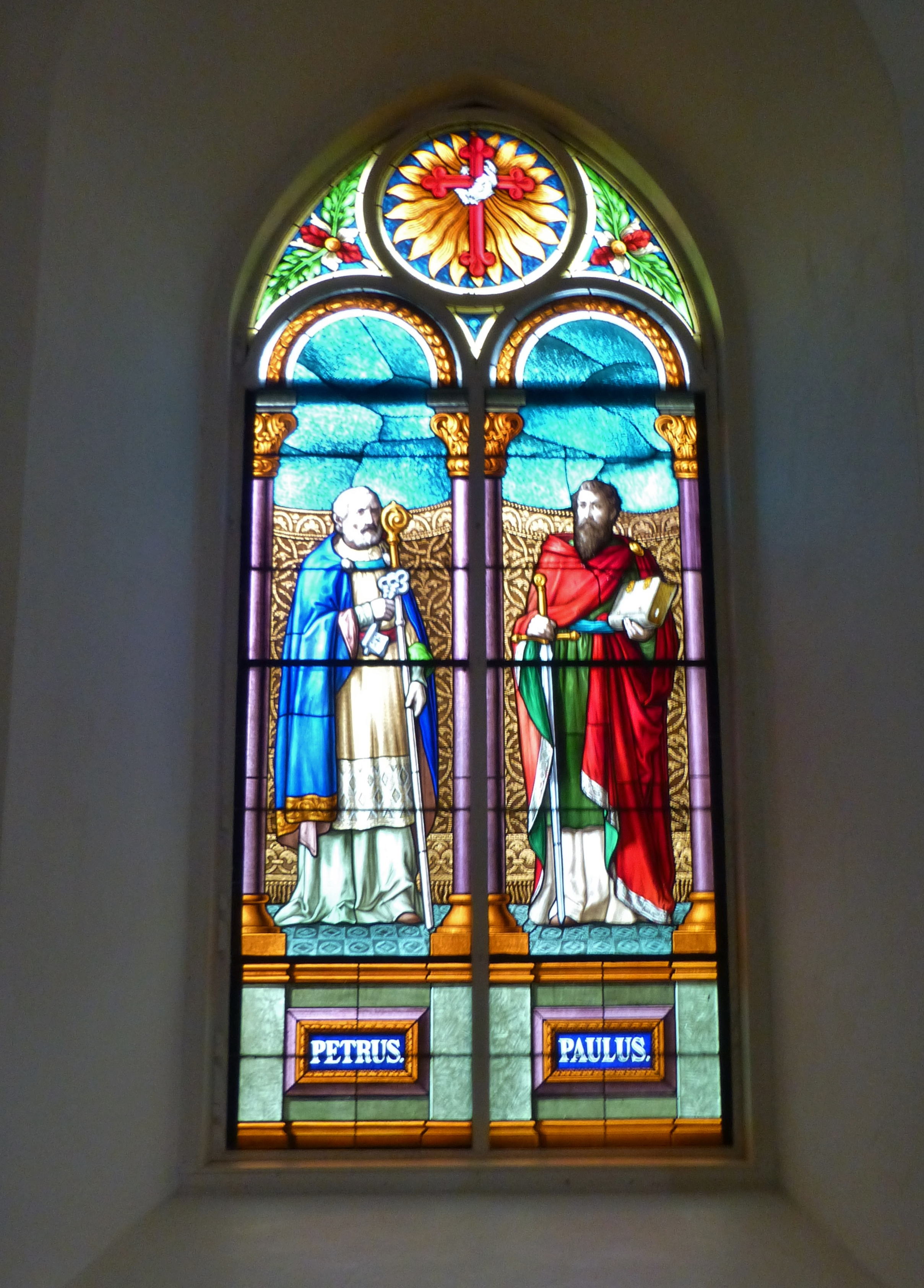 Ljungby Church,Kronobergs Country.The right chancel window from around 1900, composed by the artist Reinhold Callmander, Gothenburg with motives of Peter and Paul.